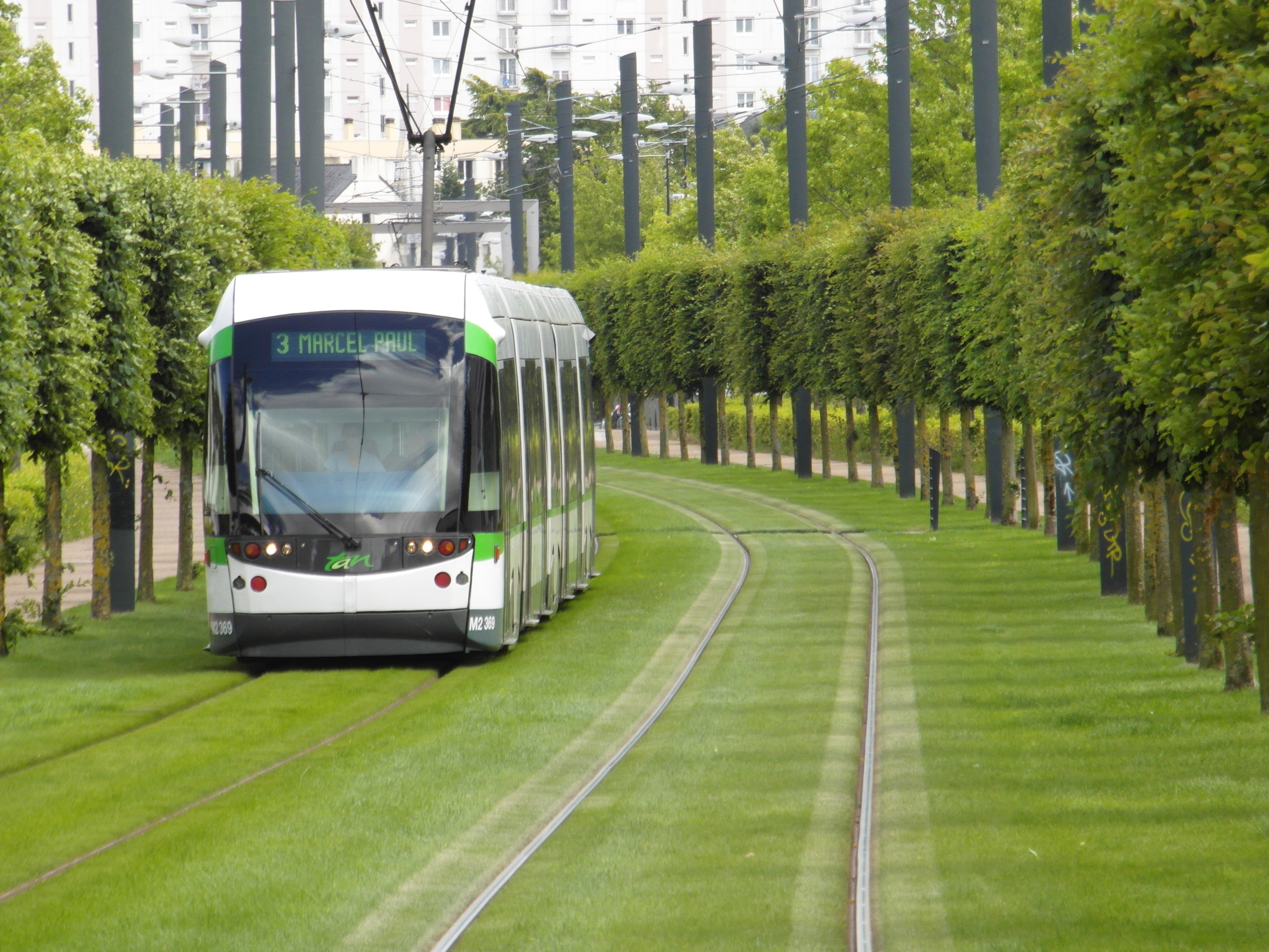 Nantes - Tramway - Ligne 3 - Orvault